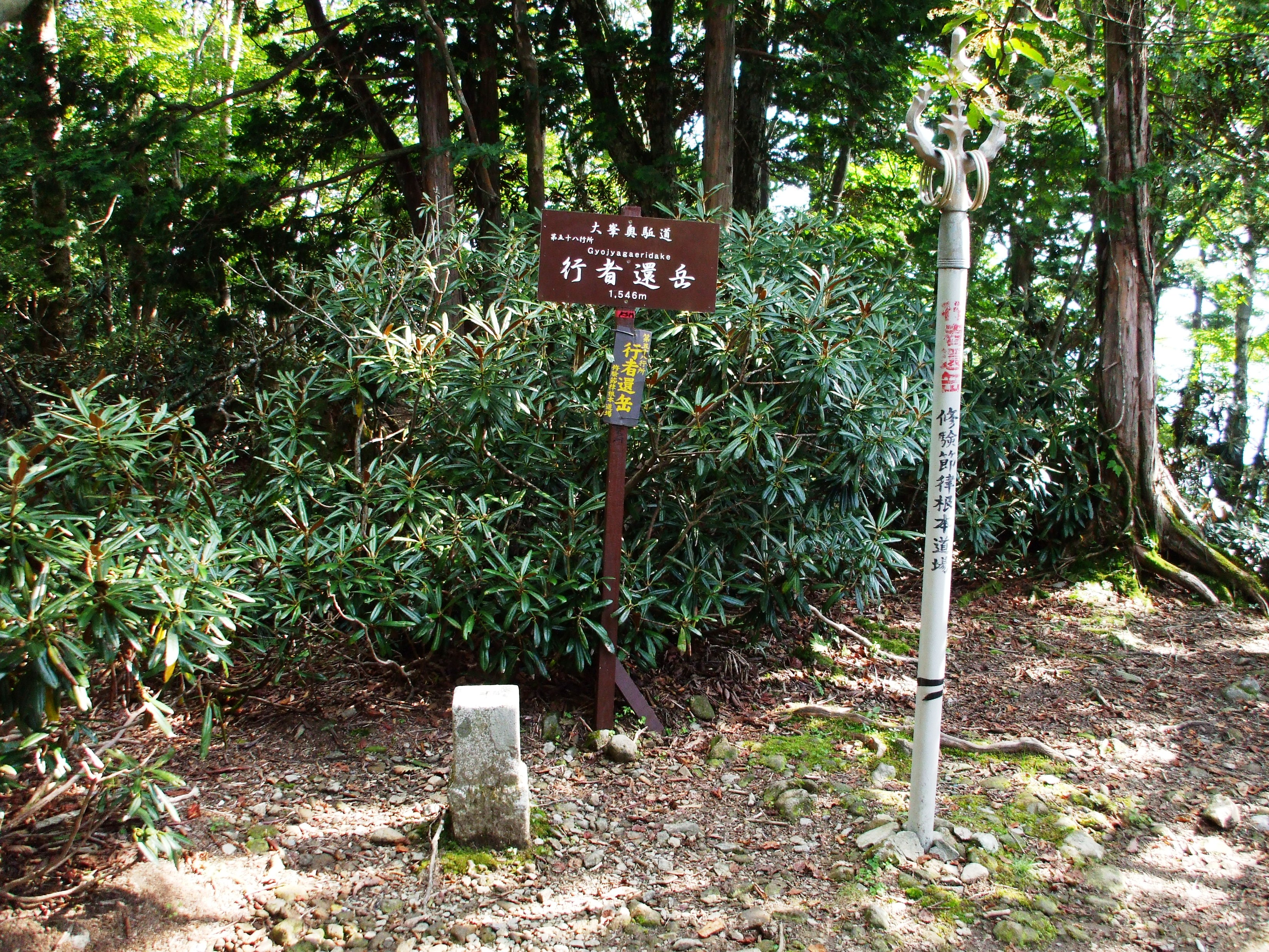 Top of Mount Gyojagaeri, of Omine Mountains, Nara, Honshu, Japan.